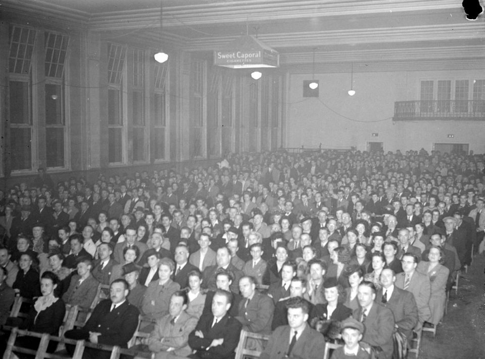 We see many listeners came to the launch of the fire prevention campaign organized by the Chamber of Commerce of Montreal.